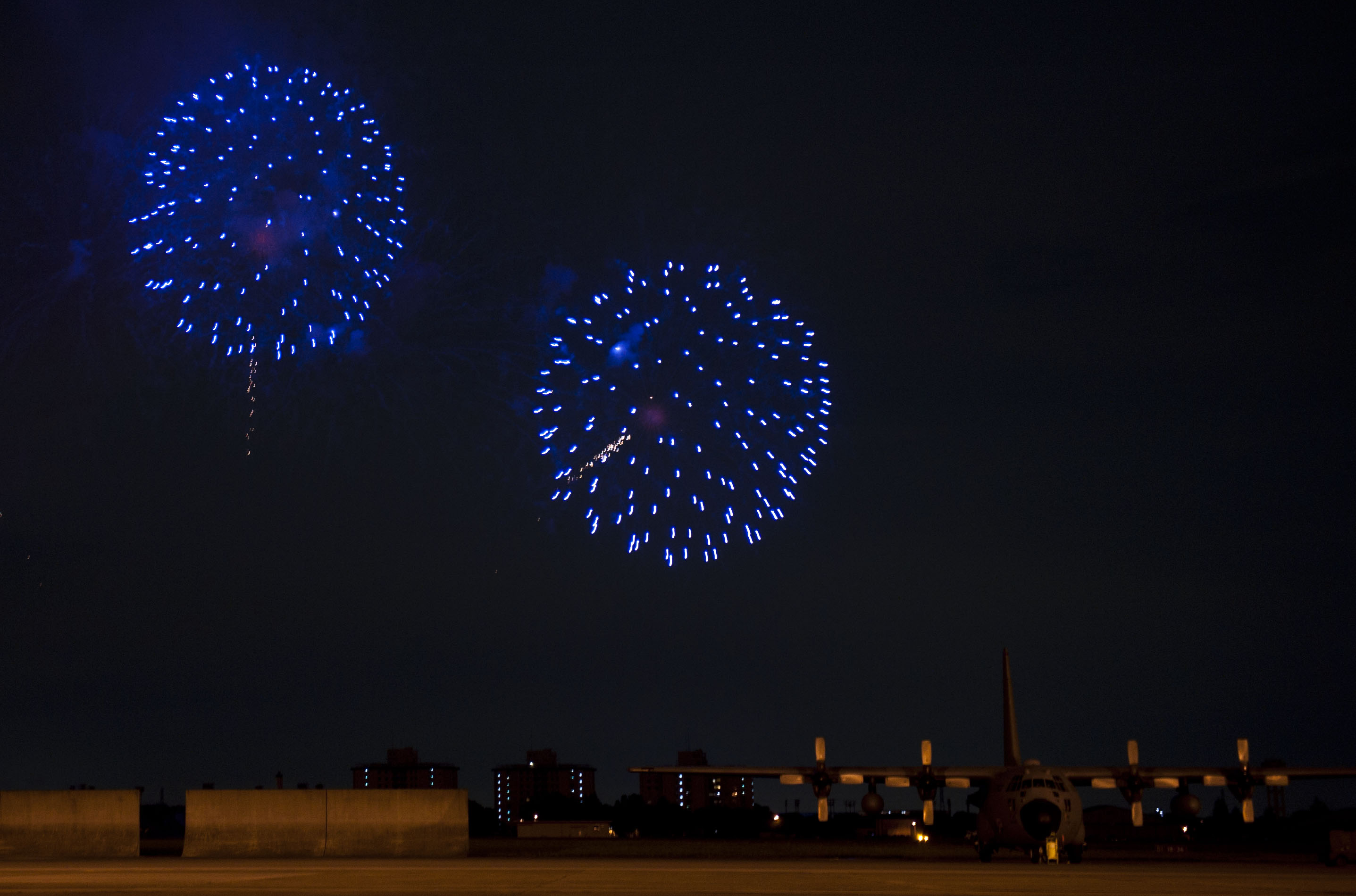 YOKOTA AIR BASE, Japan -- A C-130 Hercules rests on the taxiway under fireworks on July 4, 2013 at Yokota Air Base, Japan. Fireworks ended the night after a patriotic day of activities. (U.S. Air Force photo by Airman 1st Class photo by Meagan Schutter)